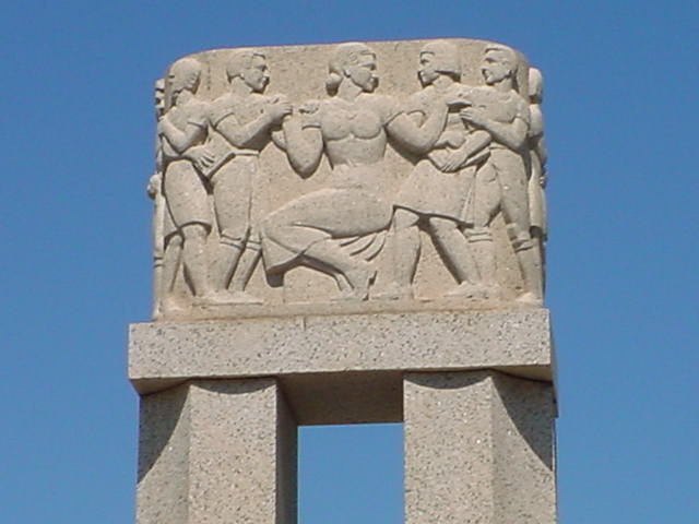 The top of the cenotaph in New London commemorating the 1937 disaster